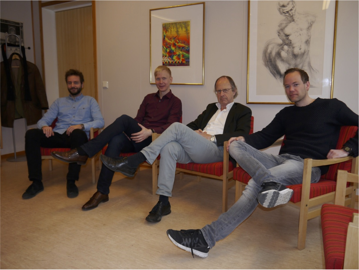 Staff in the Quality Lab for Psychotherapy